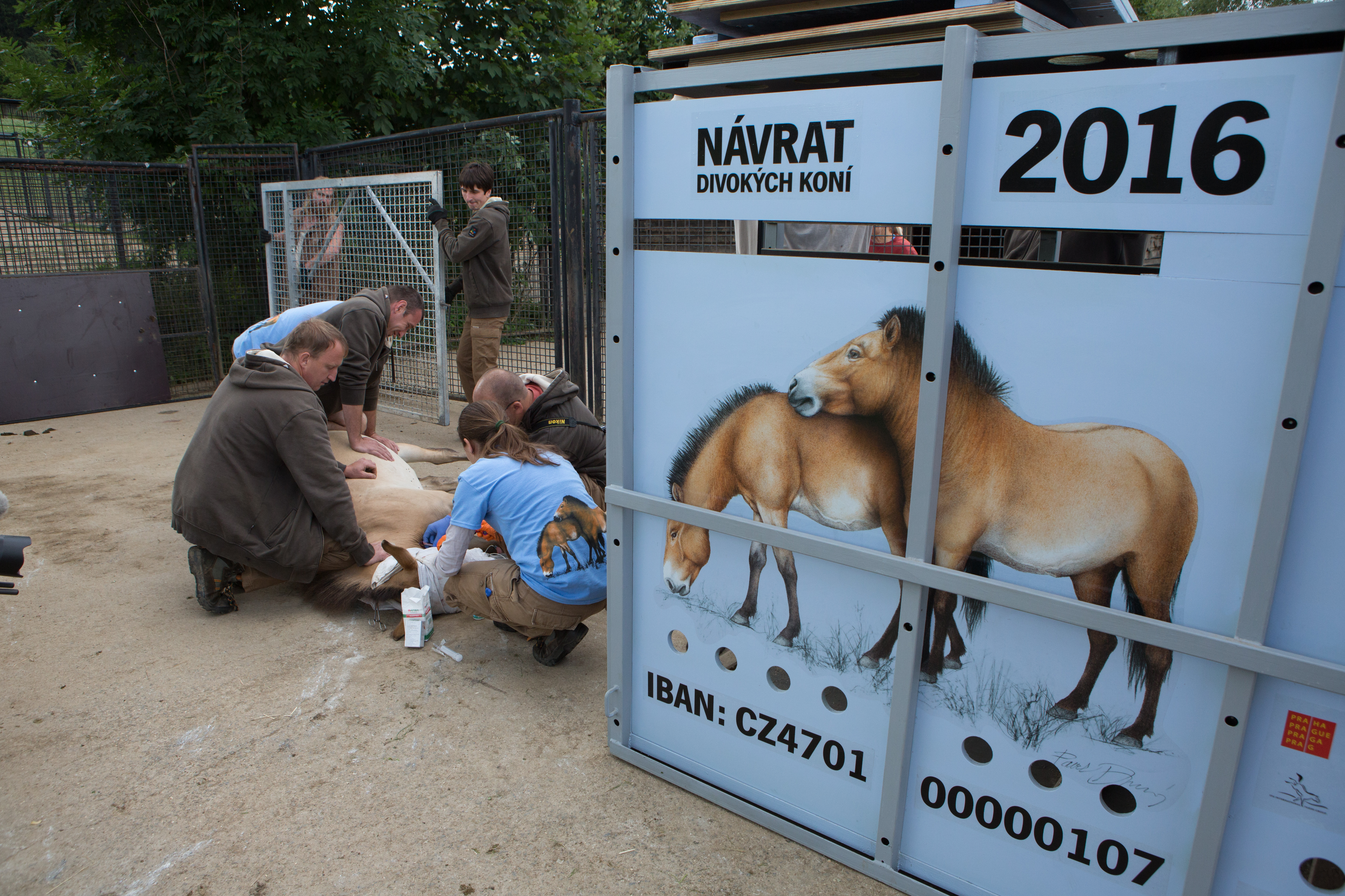 Sixth year of Return of the Wild Horses Project 1